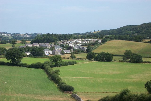 View to Henryd. View to Henryd from near Ty Newydd at grid reference SH 76795 74263.